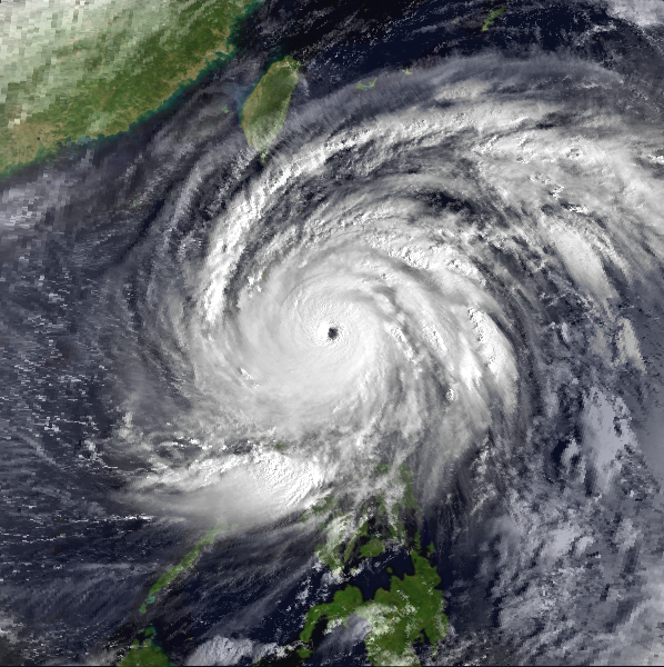 Image of Typhoon of the 1998 Pacific typhoon season on October 13, 1998.